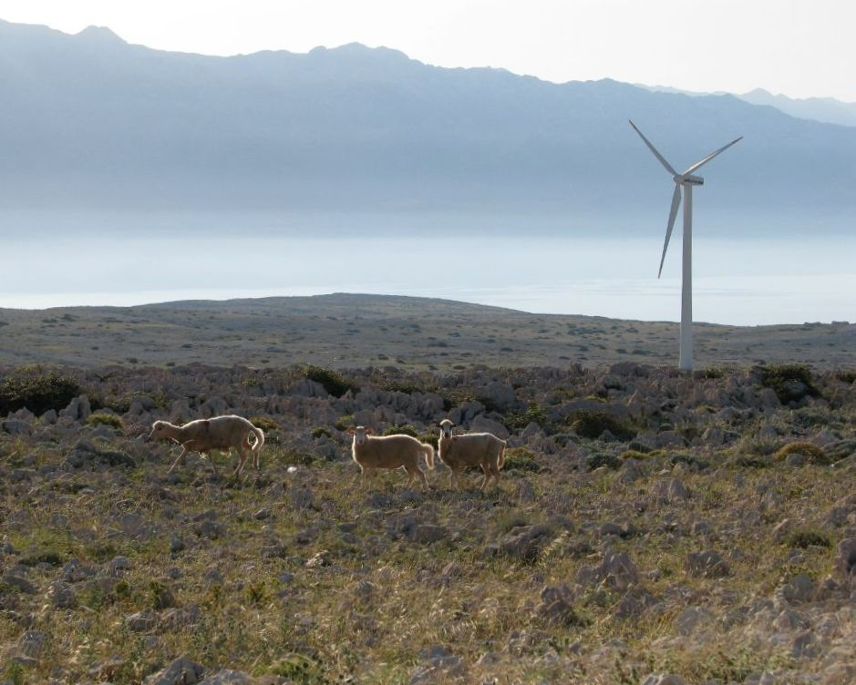 "Vjetroelektrana Ravna 1" wind farm, Island of Pag, Croatia